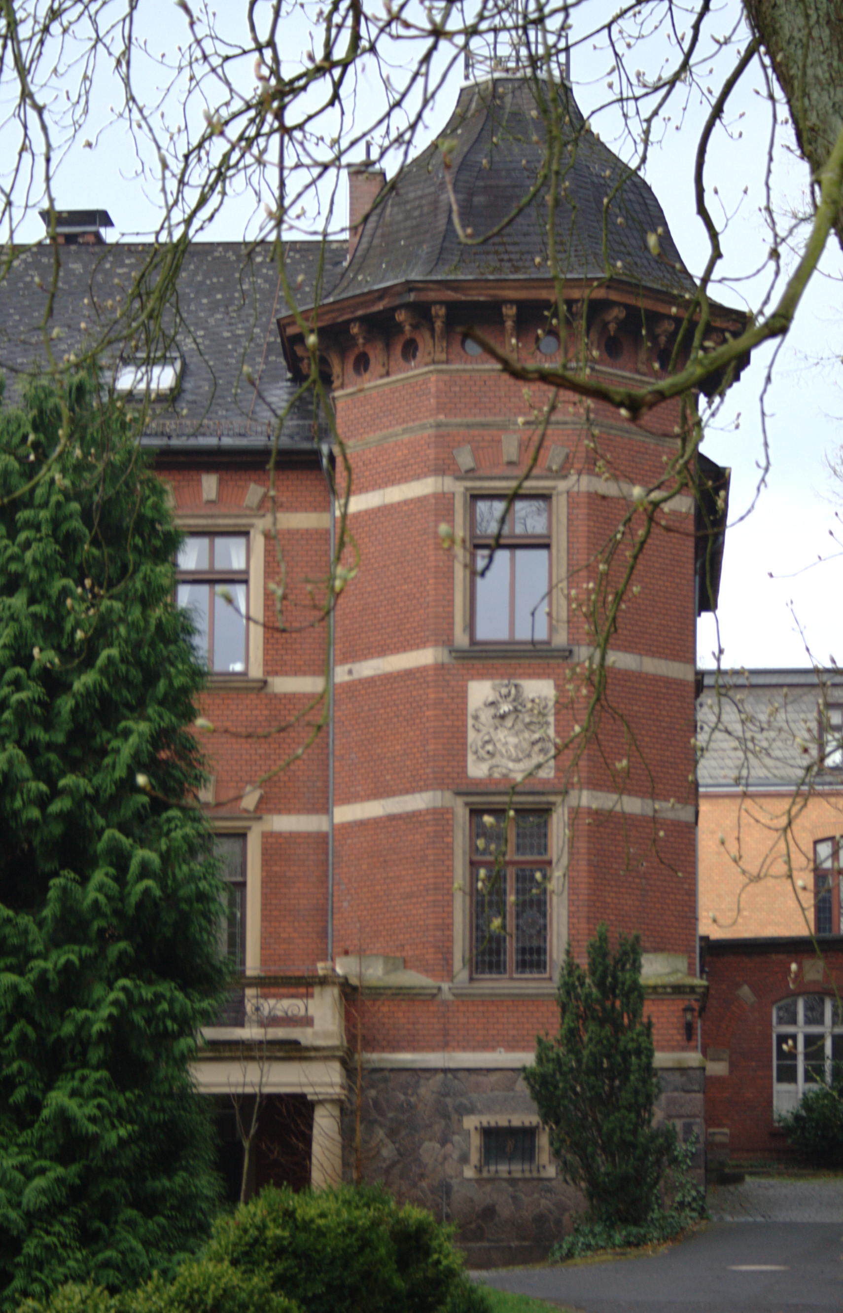 Building in Gießen Wilhelmstrasse 40 / Hesse / Germany